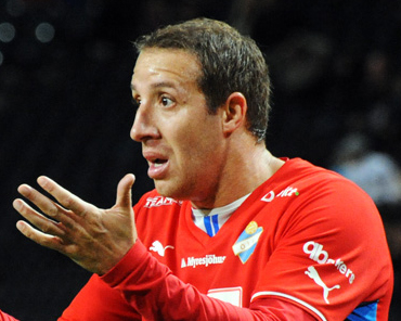 Kenny Pavey during the 2013 match AIK-Östers IF